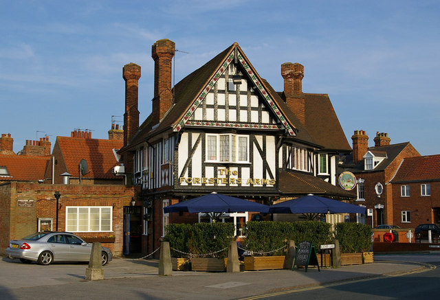 The Foresters Arms, Beverley, East Riding of Yorkshire, England.The Foresters Arms is situated on Blucher Lane at the head of Beverley Beck.